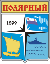 Polyarny (Murmansk oblast), coat of arms (1990)